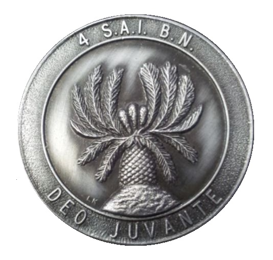 SADF 4 SAI medalion